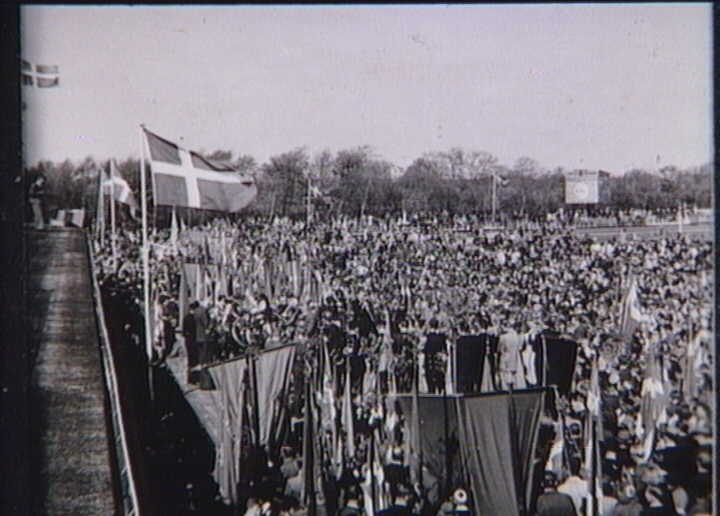 Open-air meeting at Esbjerg stadion, May 1945. More images from The Museum of Danish Resistance